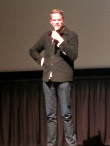 Patrick Brice at a Q&A session for The Overnight at the Sundance Kabuki in San Francisco, California, United States